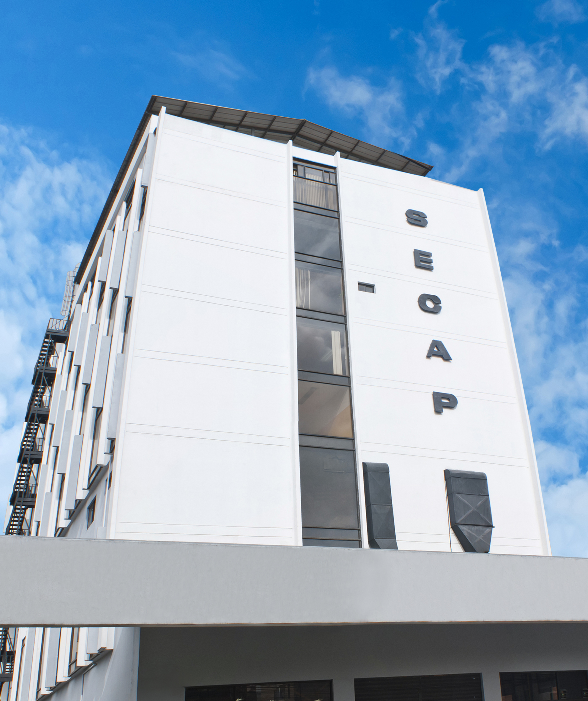 Building of the Ecuadorian Vocational Training Service in the city of Quito